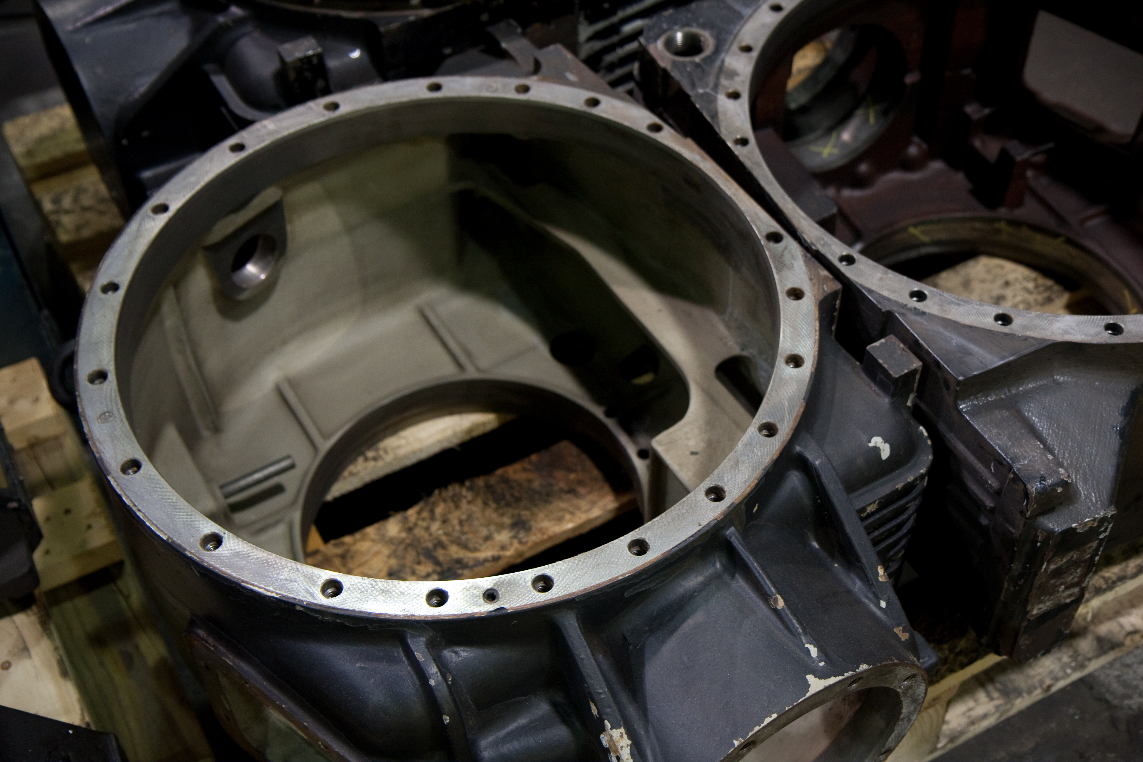 A gear box for a subway car.